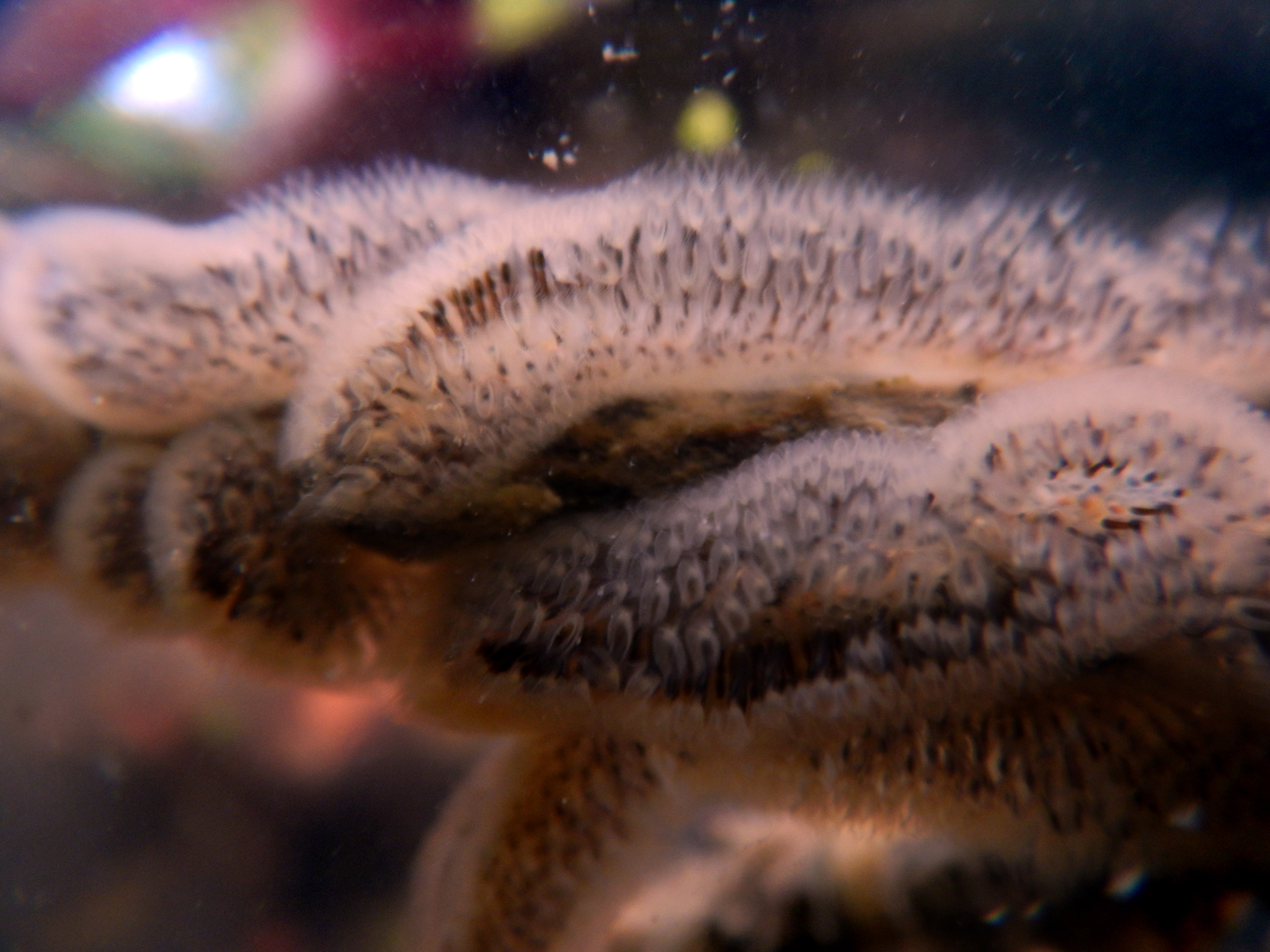 Bryozoan (cristatella mucedo) found living in colonies in the "Mid-Deûle" in the north of France - this fragile species seems to have appeared (or reappeared there) after import of clea water in the canal (over 2 million m3 / year)- . These animals lives in this case in a eutrophic water with sediments are polluted (formerly in constant contact with Upper-Deûle River, coming from the mining area (which were amongst the Métaleurop North Plant), on branches, wood piles, poles or walls ot the canal [but not or very rarely, and in this case may be accidentally) on the sediment] of this ancient channel (that is no longer open to traffic, replaced by a full-size section last more northwest).